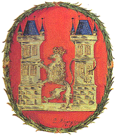 Velvary CoA CZ